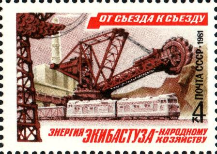 Energy of Ekibastuz for the national economy. Post of USSR 1981.